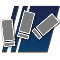 This is the official logo for Urban Terror 4.X version.